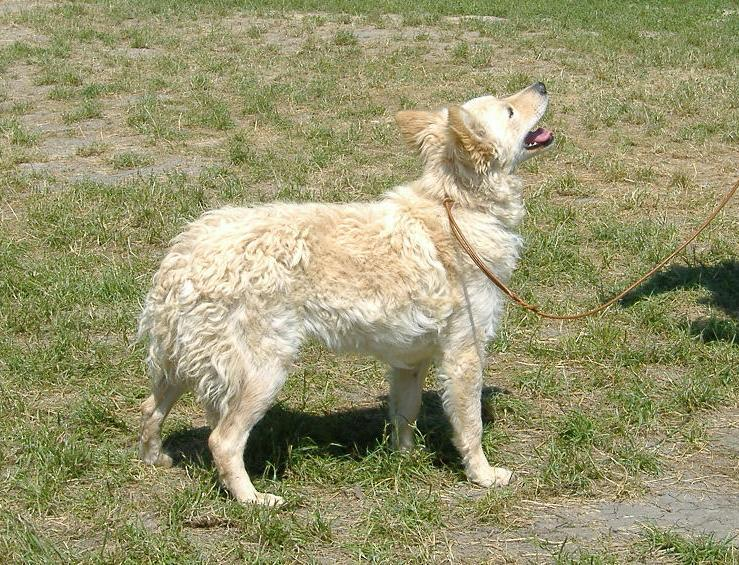 A fawn-coloured Mudi